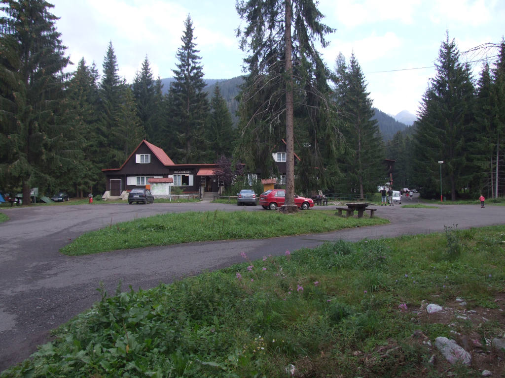 Autocamping Račkowa (West Tatra Mountains)